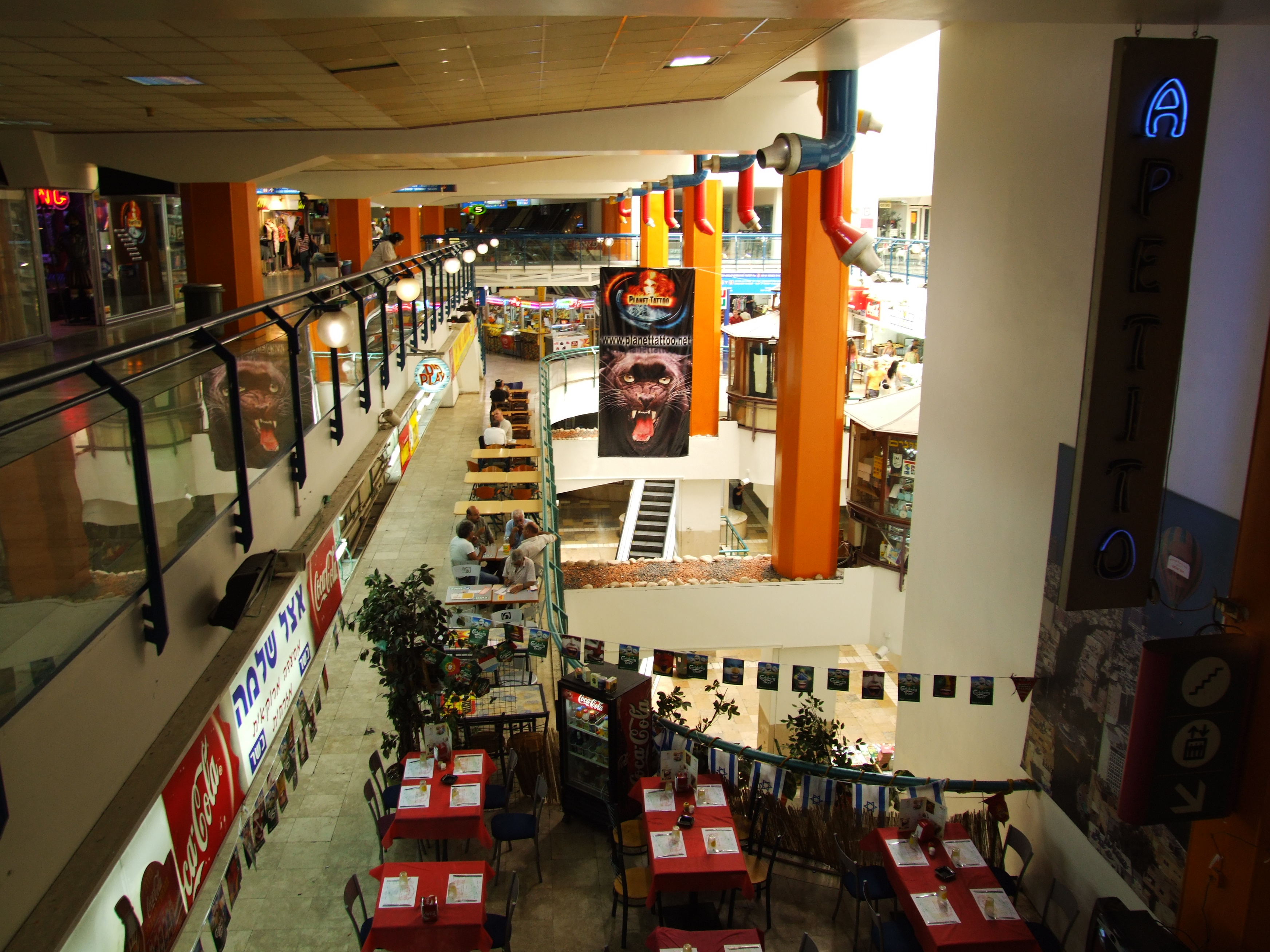 tel aviv centeral bus station